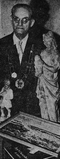 Photo of swedish editor and journalist A. Emil Jacobsson (1887-1966), taken from a unknown swedish newspaper from 1961-02-13. Jacobsson is wearing a Odd Fellow chain, celebrating the Odd Fellow 4 Gothia 50 year anniversary.